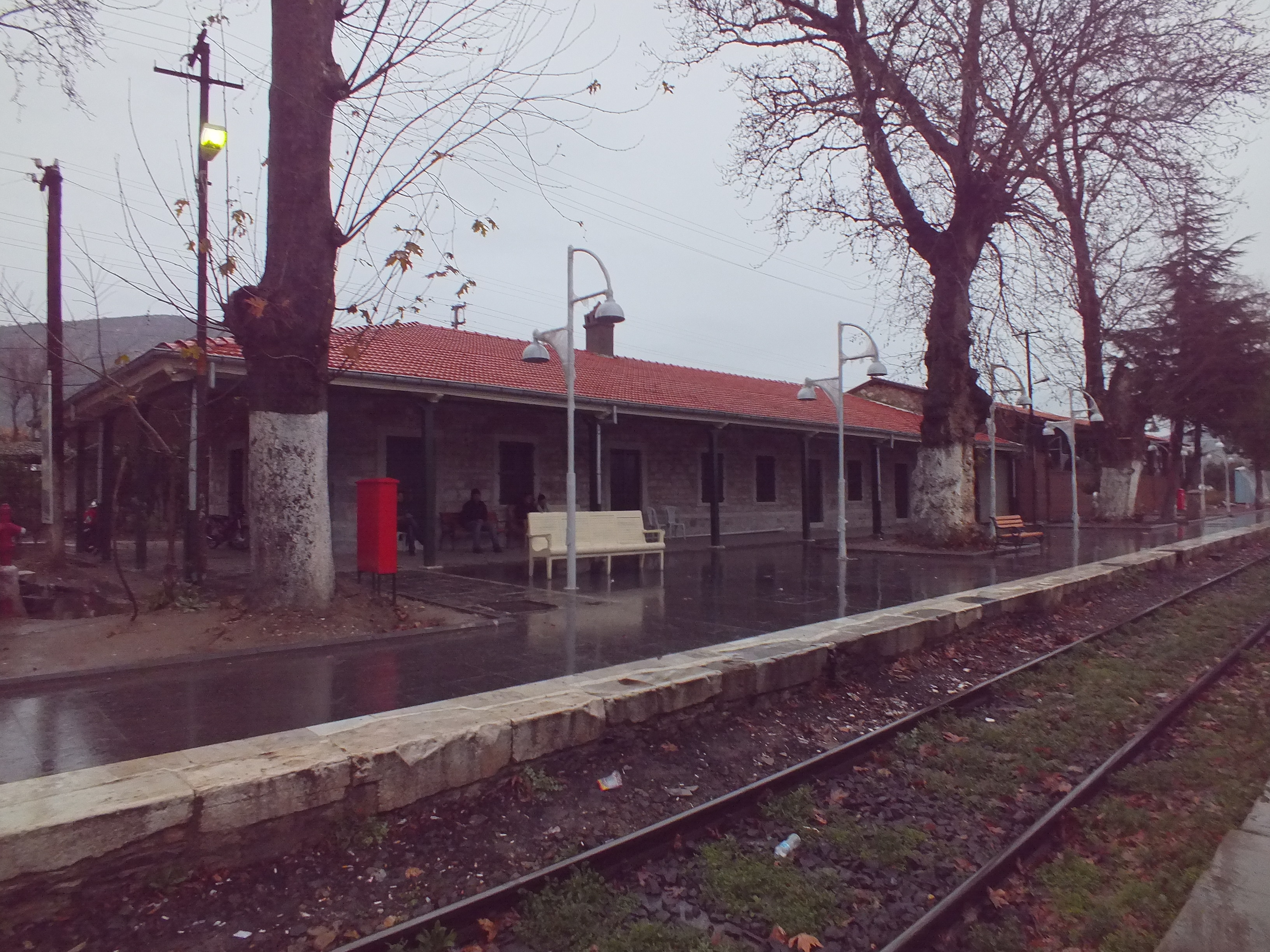 A regional train bound for Izmir at Çatal railway station.